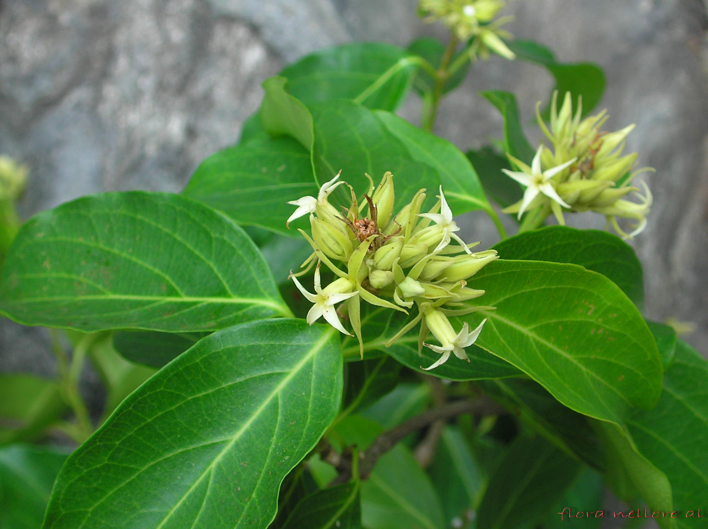 Family: Apocyanaceae Distribution: Common in hill slopes. Limited to Peninsular India and Bengal.Photographed at Eastren ghats in Andhra Pradesh. Pretty climbing shrubs. branchlets pubescent.Leaves elliptic ovate, obtusely acute, base attenuate, subcoriaceous, Flowers white fragrant 1-2cm across, in terminal corymbose cymes.Flowers densly corymbose, pale yellow or white, cymes densly corymbose, Whole plant is used as anthelmintic,emetic and used in the treatment of bronchitis. Flowers are useful in ophthalmia. Reference: Flora of Presidency of of Madras by J.S. Gamble.As per this edition it is Aganosma cymosa G.Don